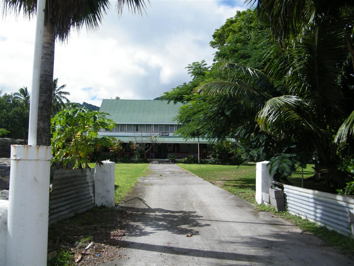 Tinomana Palace (Au Maru) in Arorangi, Rarotonga, Cook Islands